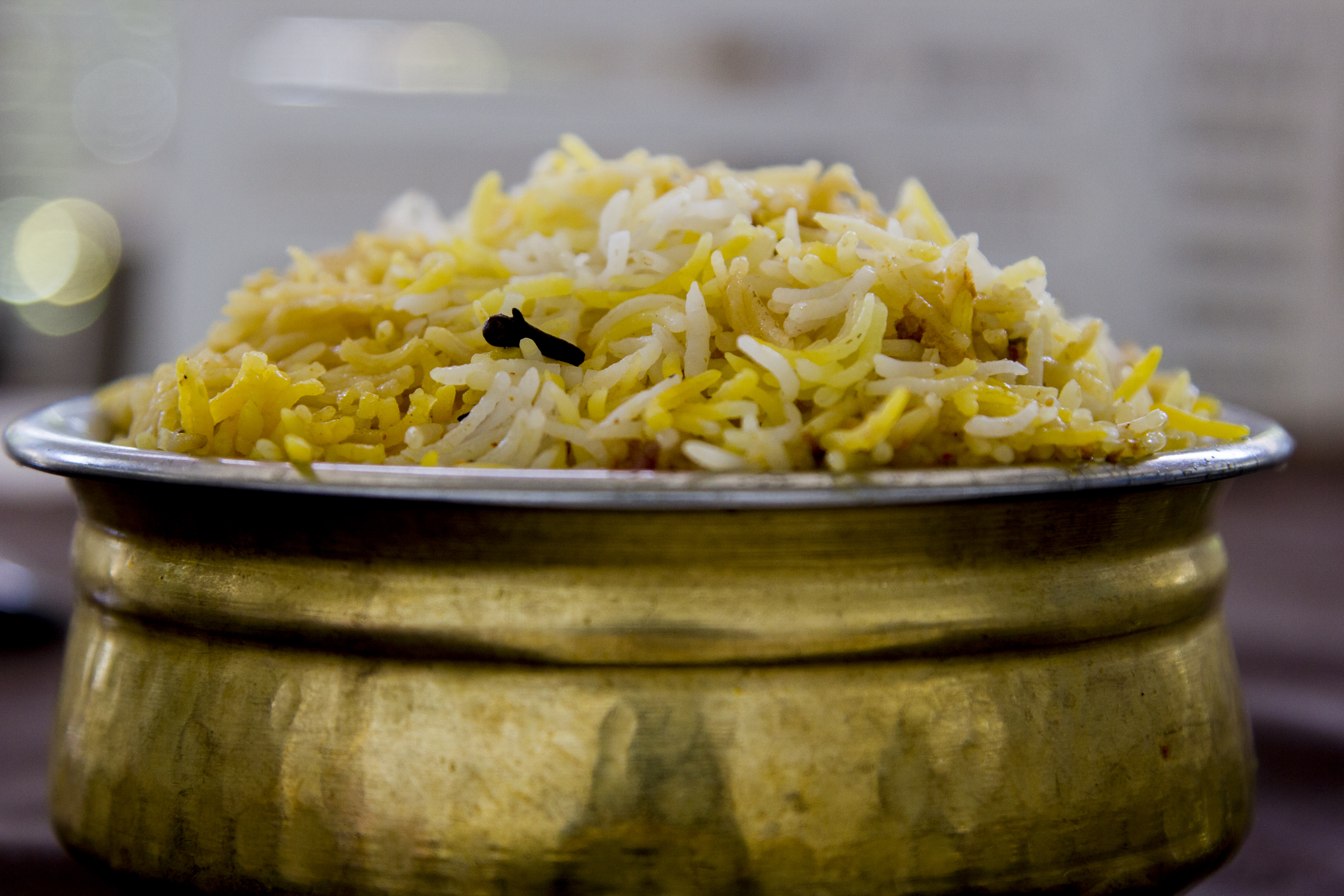 BIryaniiii